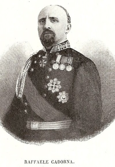 Raffaele Cadorna (1815-1897), general of the sard-piedmontese army, then of the royal italian army, then senator of the Kingdom of Italy